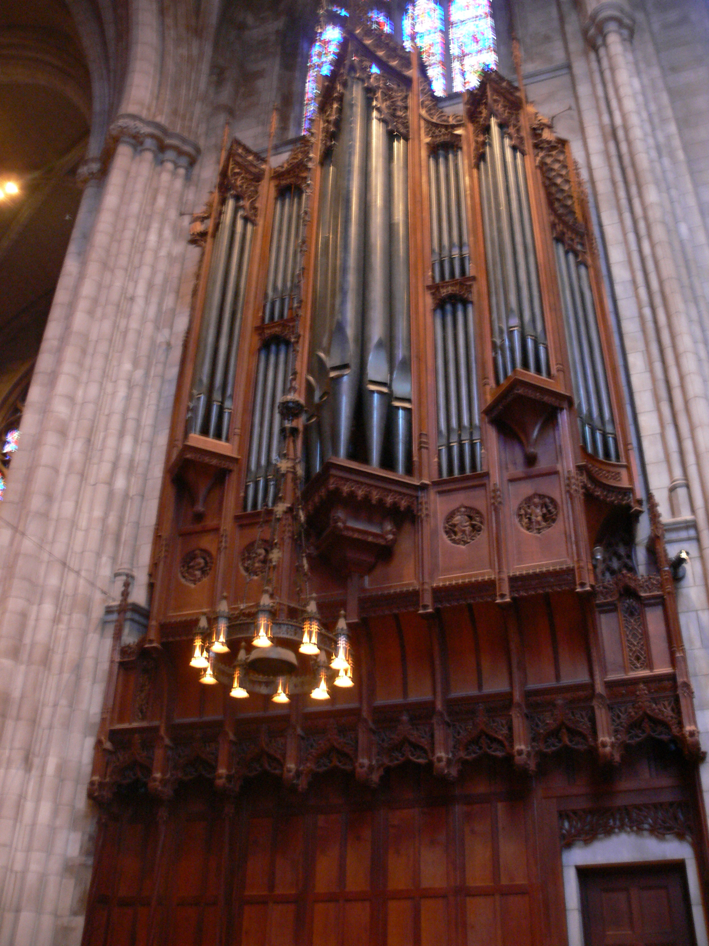 Mander Organ at Princeton University Chapel Princeton University, Princeton, New Jersey